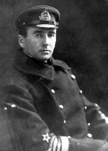 Pantserzhansky, Eduard Samuilovich.